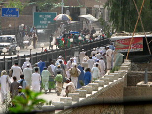 Afghan and Pakistani locals cross their border during the Afghan Independence Day celebration, Aug. 19, at Torkham Gate. U.S. Army photo by Pfc. Daniel M. Rangel